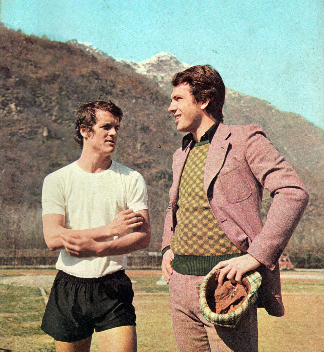 Villar Perosa (Piedmont, Italy), early 1972. From left to right: footballers of Juventus F.C., Fabio Capello and Roberto Bettega, talks during a training session in the 1971–72 season. Bettega, in everyday clothes, is visiting the team during his period of enforced rest for a lung infection and the initial stages of tuberculosis, that will force him to stay out of the game for a few months in that year.